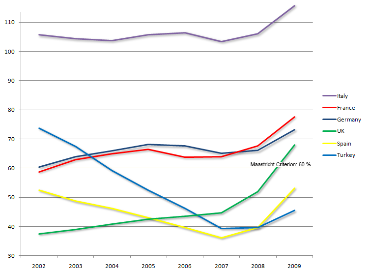 General government consolidated gross debt as a percentage of GDP.